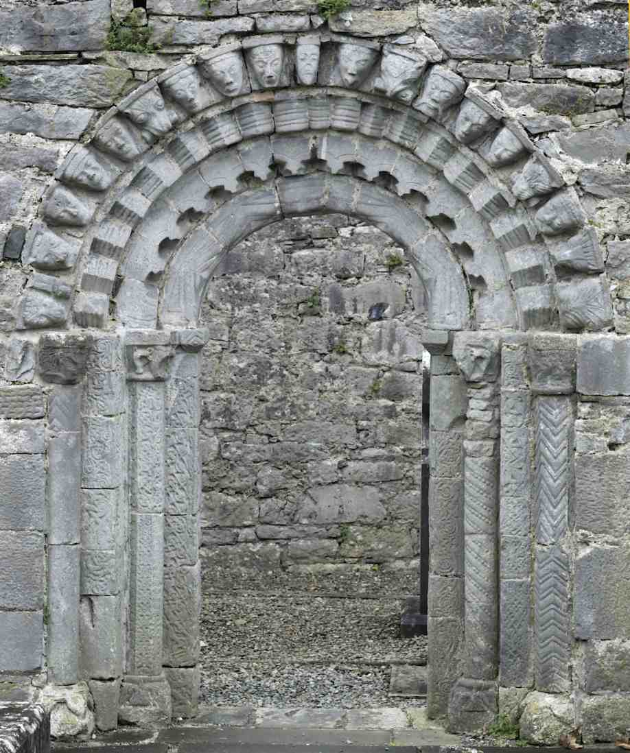 Doorway Dysert Cathedral, County Clare, Nov 2005 Danny Burke